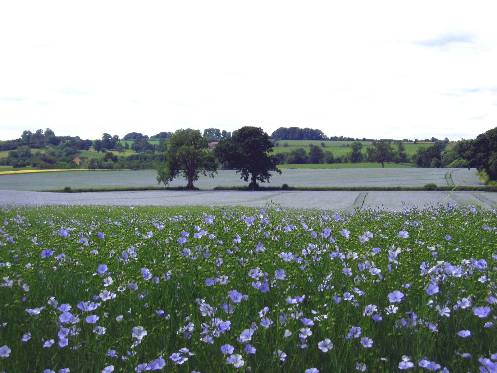 A field of linseed in flower, Cotswolds, England